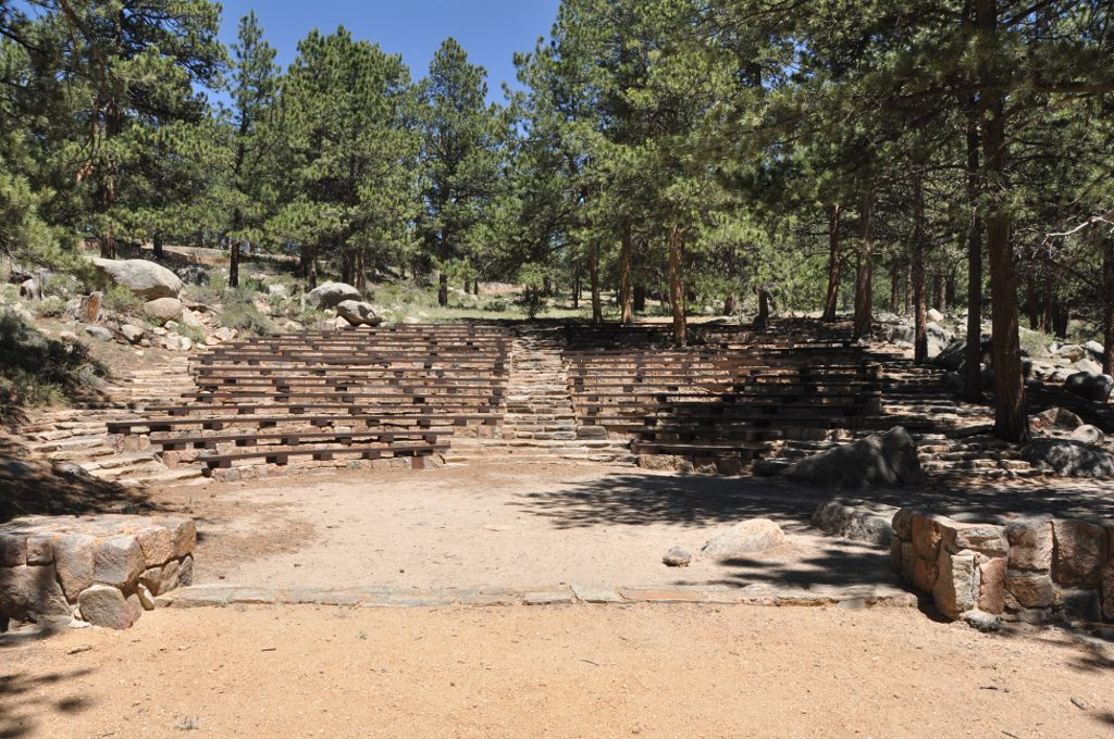 The historic ampitheater at Moraine Park in the Rocky Mountain National Park.